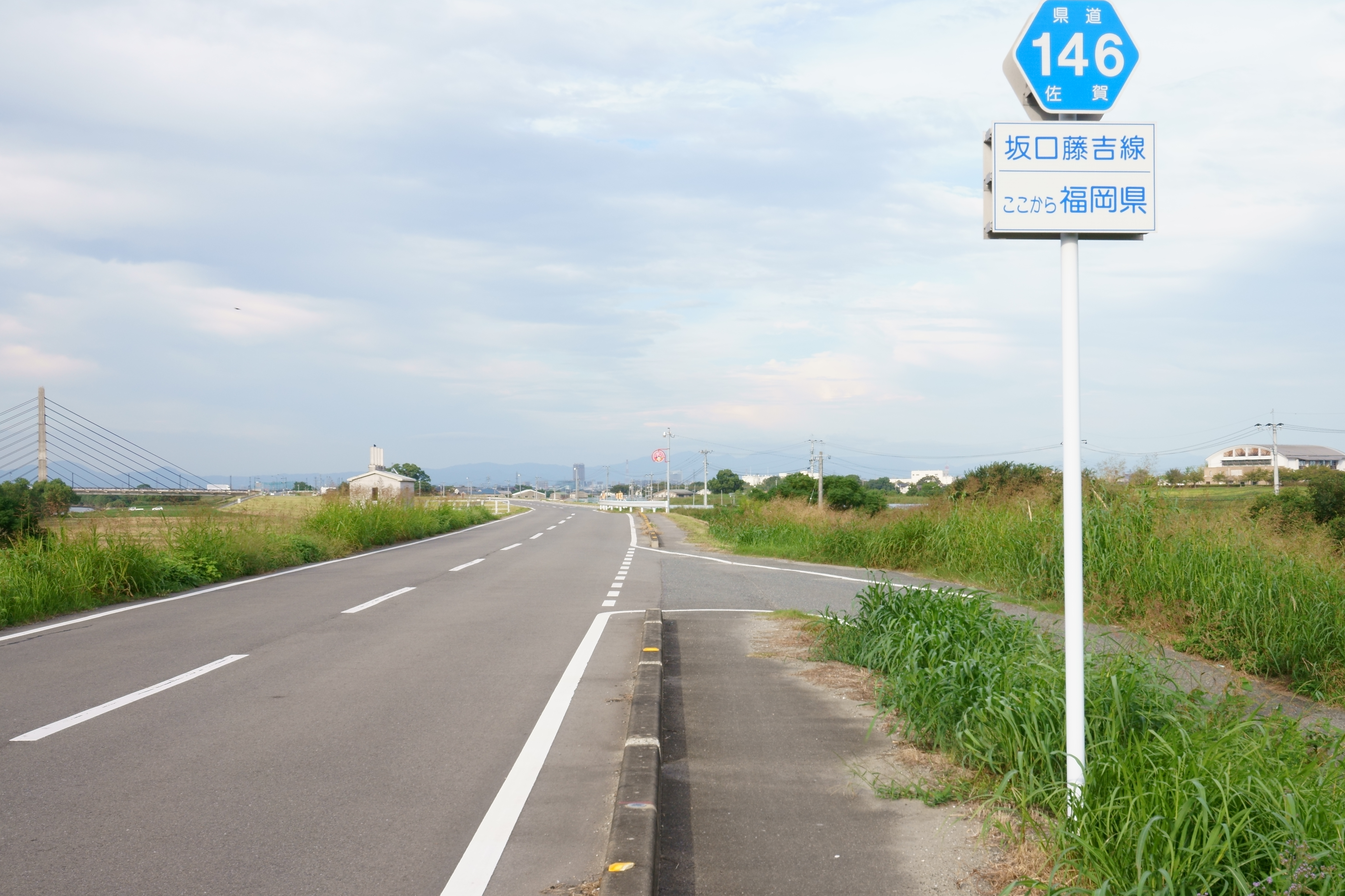 Saga Prefectural and Fukuoka Prefectural Road No.146 in Sakaguchi, Miyaki town, Saga prefecture.